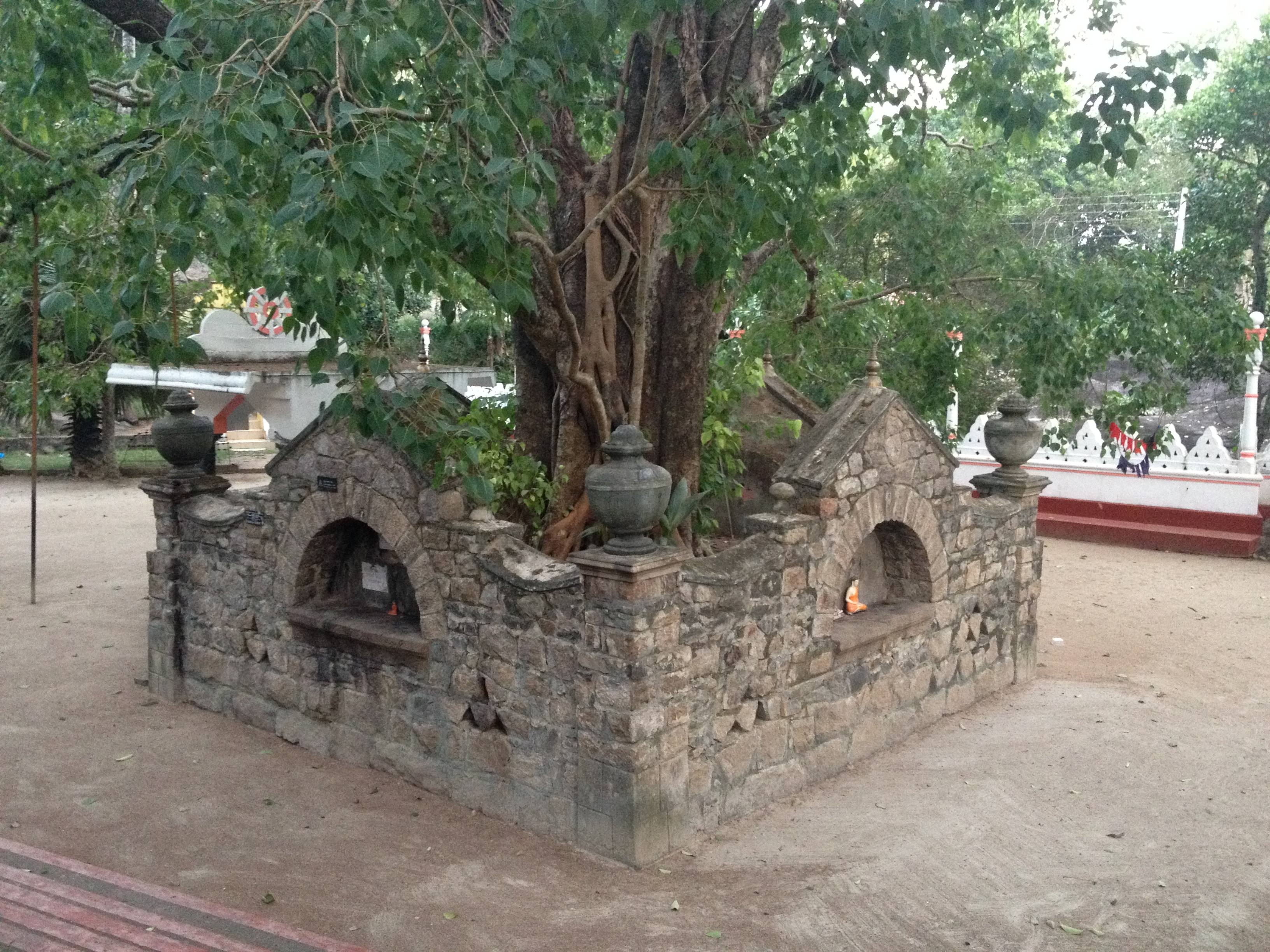 The Bodhi tree and its rampart at Uruwala Valagamba Raja Maha Vihara